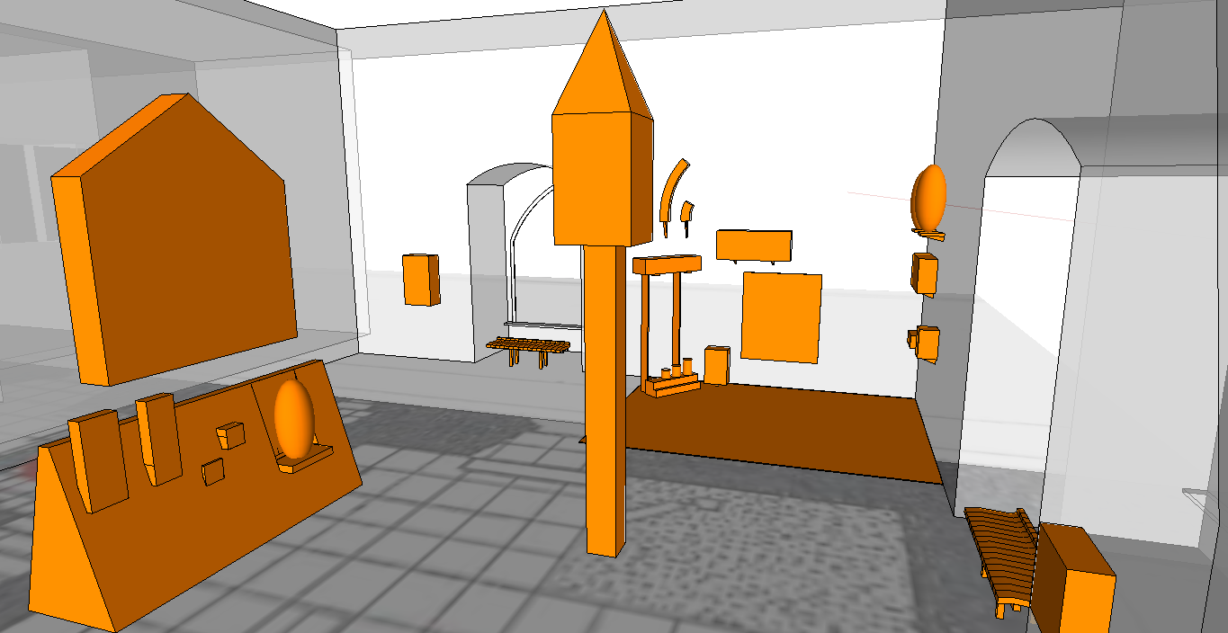 foto del modello sketch up sala 3 del castello sforzesco